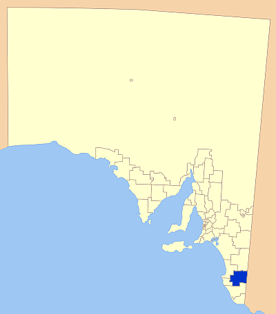 Modification of Astrokey44's original map found here: File:SA_LGA_blank.png Position of Coober pedy LGA